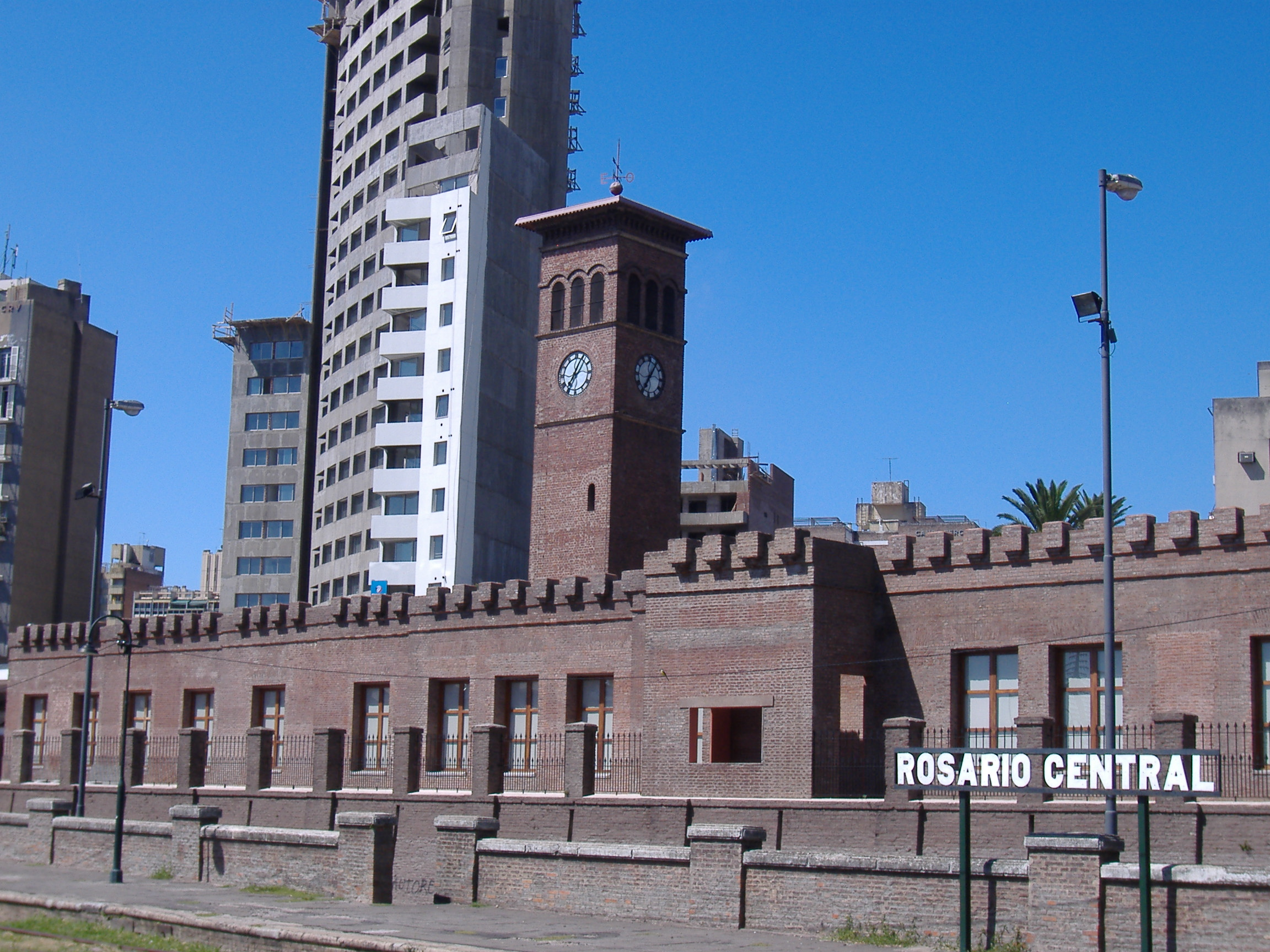 The clock tower of the former Rosario Central railway station in Rosario, Argentina, built in 1870, view from the platforms. The main building has been preserved and turned into the Municipal District Center "Antonio Berni", for the downtown district. See Districts of Rosario and this district center's webpage.